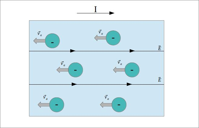 Corriente eléctrica